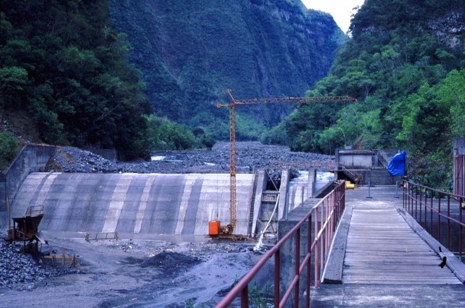 Construction of the Bras de la Plaine Dam at Îlet du Bras Sec, L'Entre-Deux, La Réunion, France.